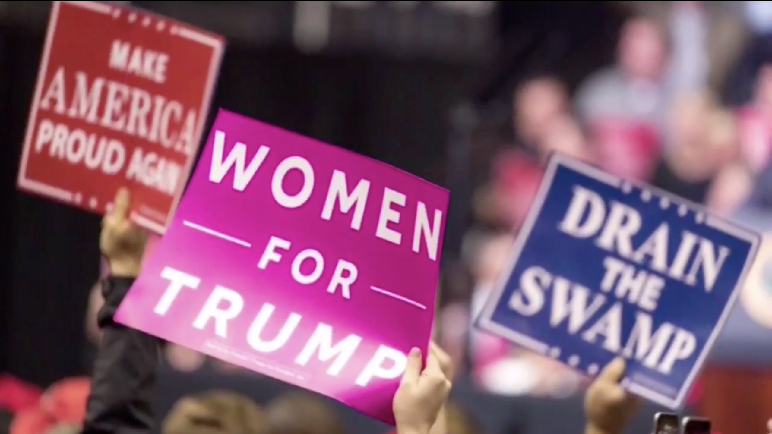 Donald Trump rally in Nashville (March 2017)